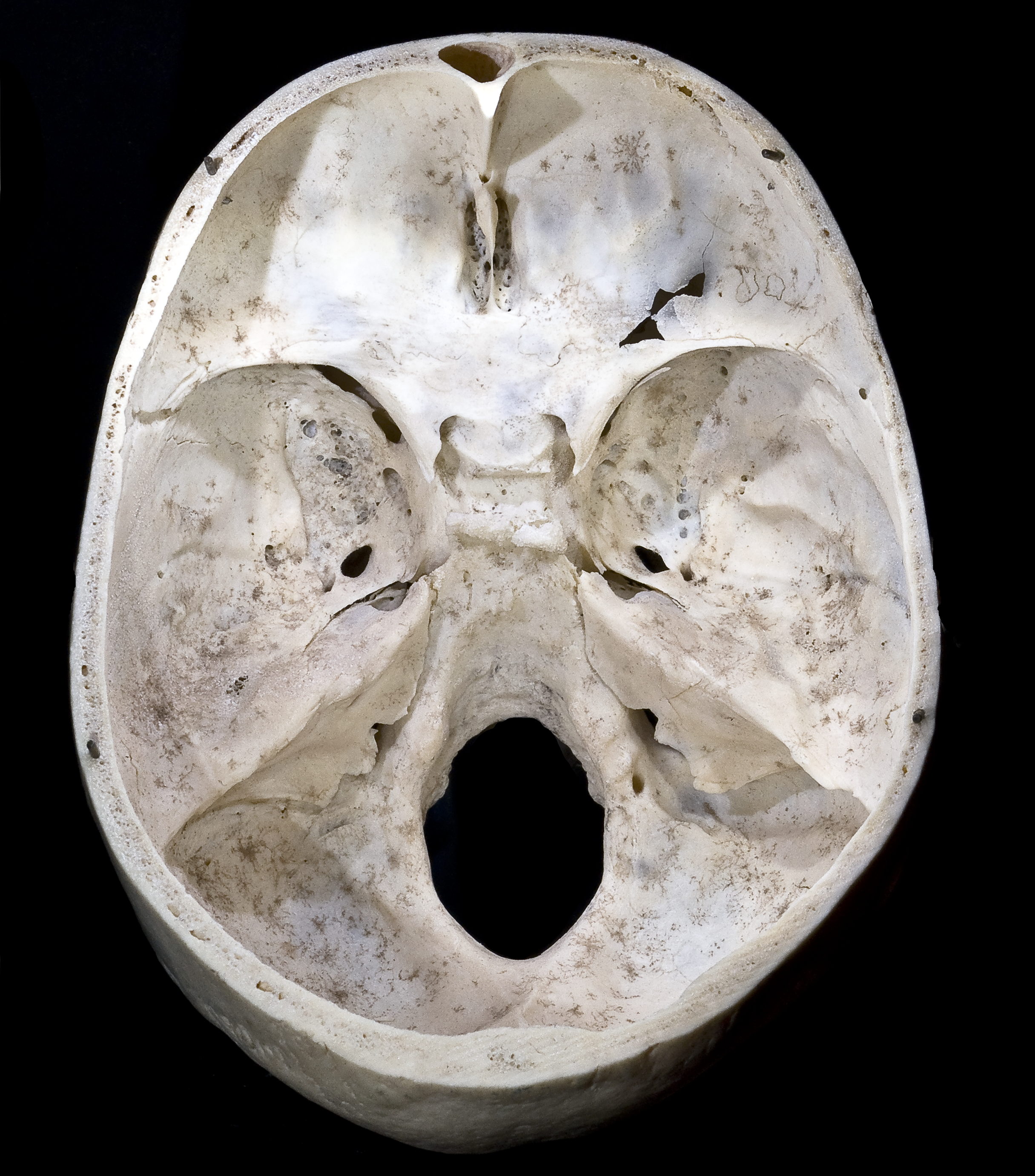 A photograph of the lower inner surface of a human skull